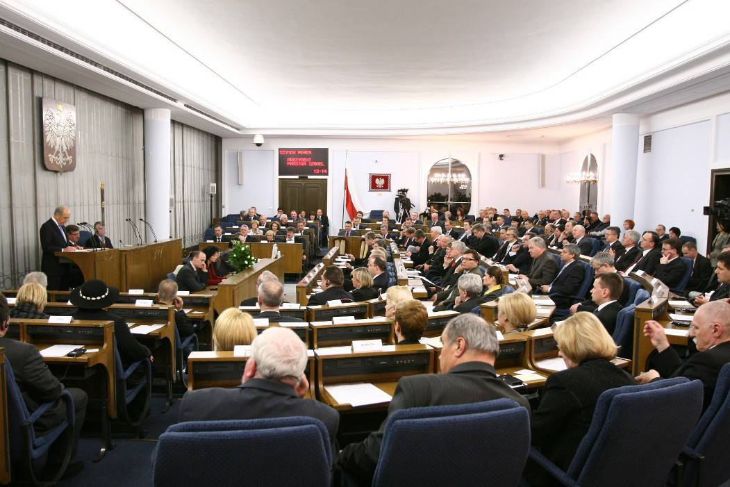 President of Israel Shimon Peres. Joint parliamentary assembly of deputies and senators in the Polish Senate